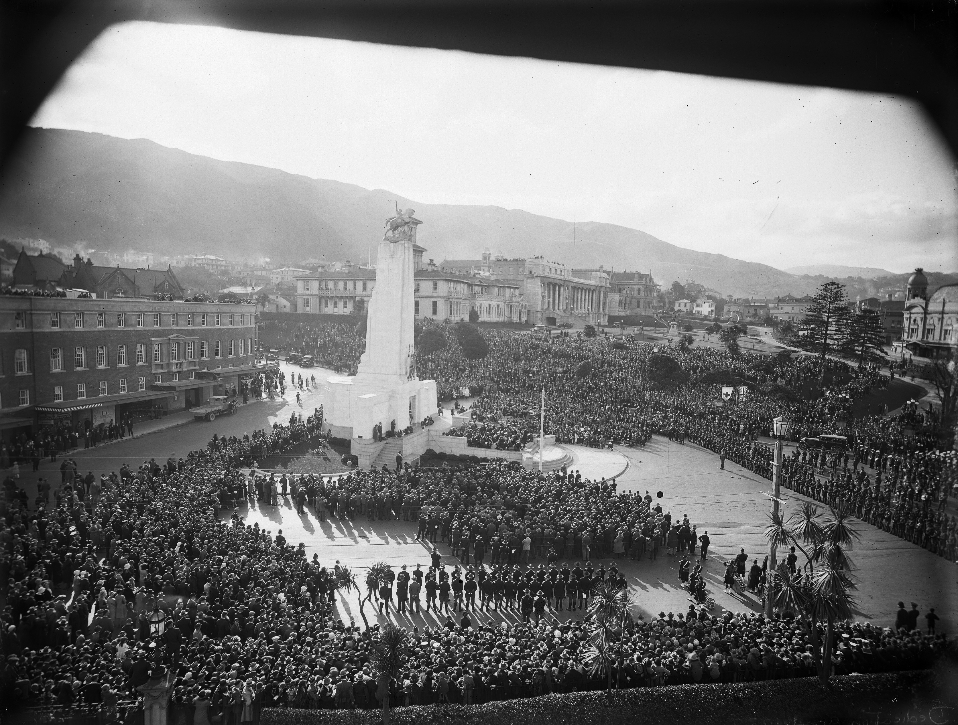 Photographer: William Hall Raine Crowd at the dedication ceremony of the Cenotaph, Wellington, 1932 Reference number: 1/1-018024-G Original negative Photographic Archive, Alexander Turnbull Library See a zoomable image on our Timeframes website